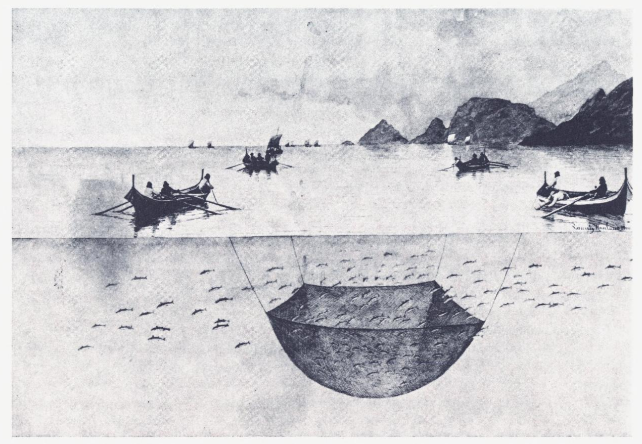 Fishing for saithe Pollachius virens along the Norwegian coast using purse seine (boat operated) lift net. Drawing by Lauritz Haaland (1855-1938)